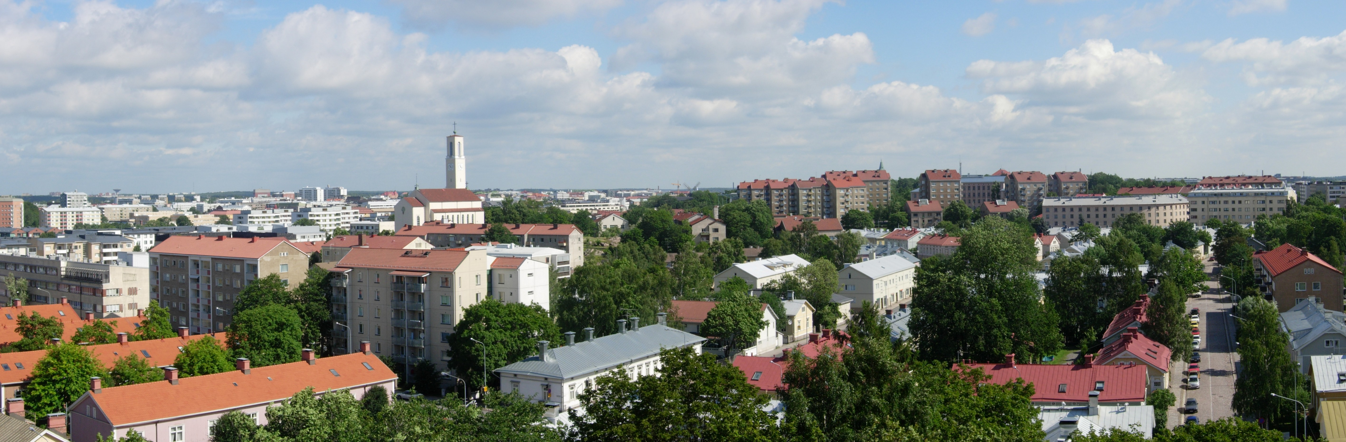 Martti